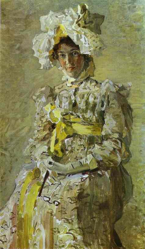 Portrai of N. I. Zabela-Wrubel